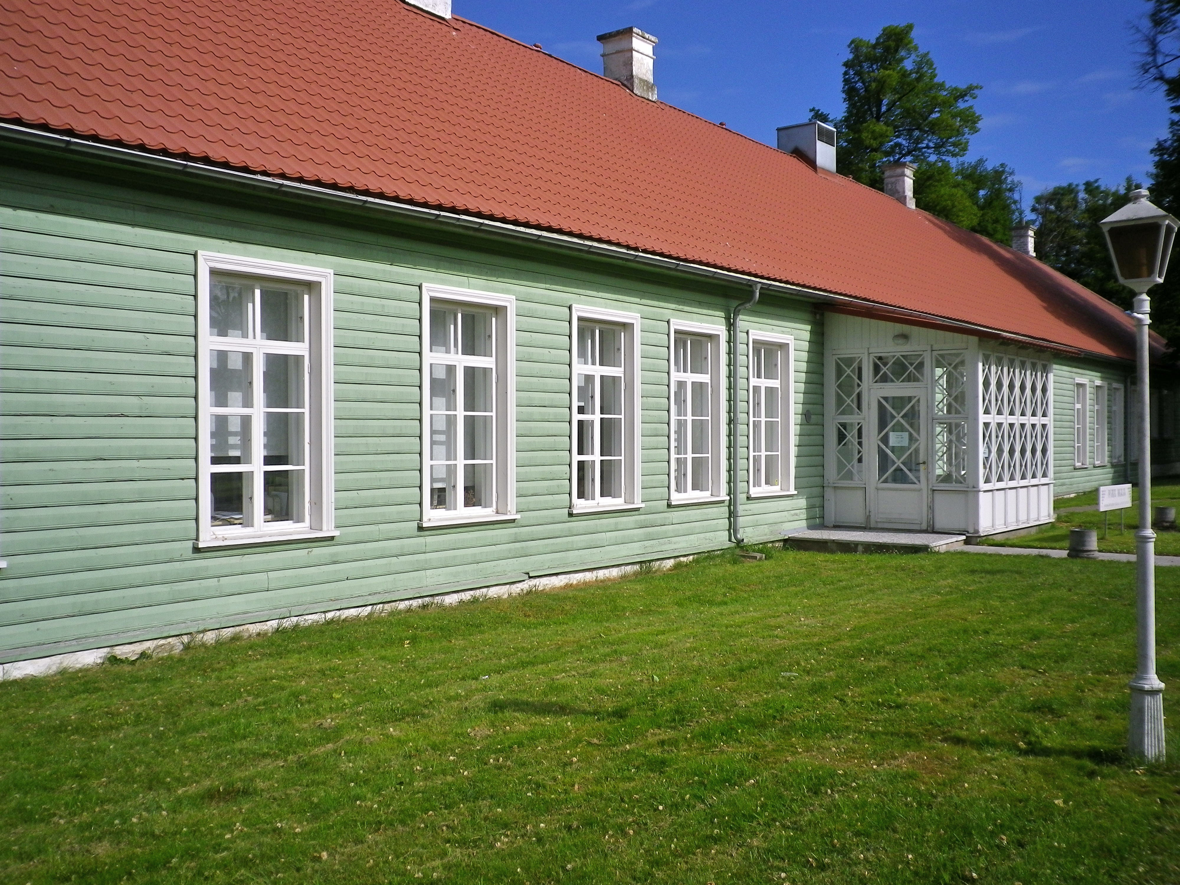 The Long House in Kärdla, at present Hiiumaa Museum